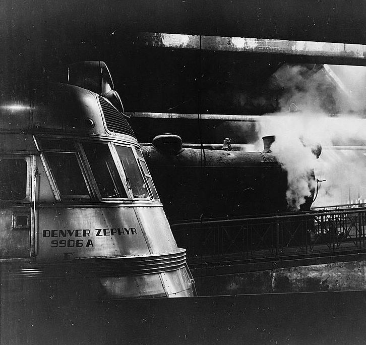 Chicago, Illinois. Steam and diesel engine at the Union Station